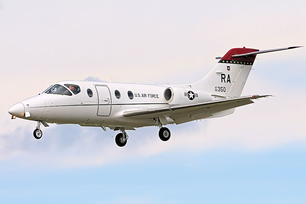 This Jayhawk made a very welcome but rare appearance at the Air Tattoo in 2007. The co-pilot certainly seems to be pleased to be there !